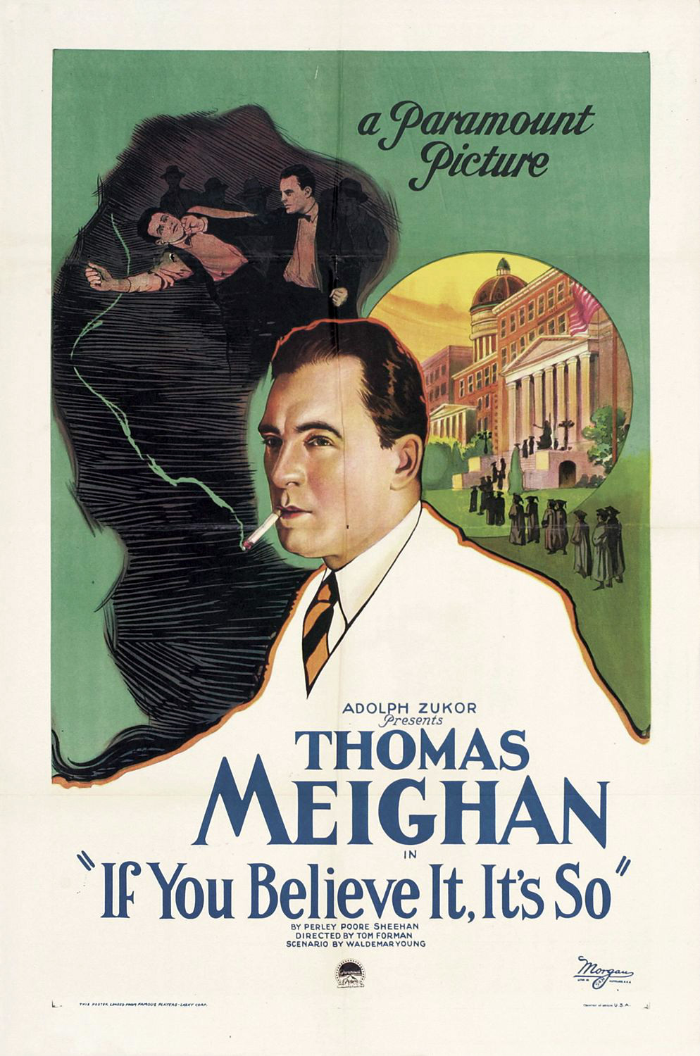 Poster for the American comedy film If You Believe It, It's So (1922).